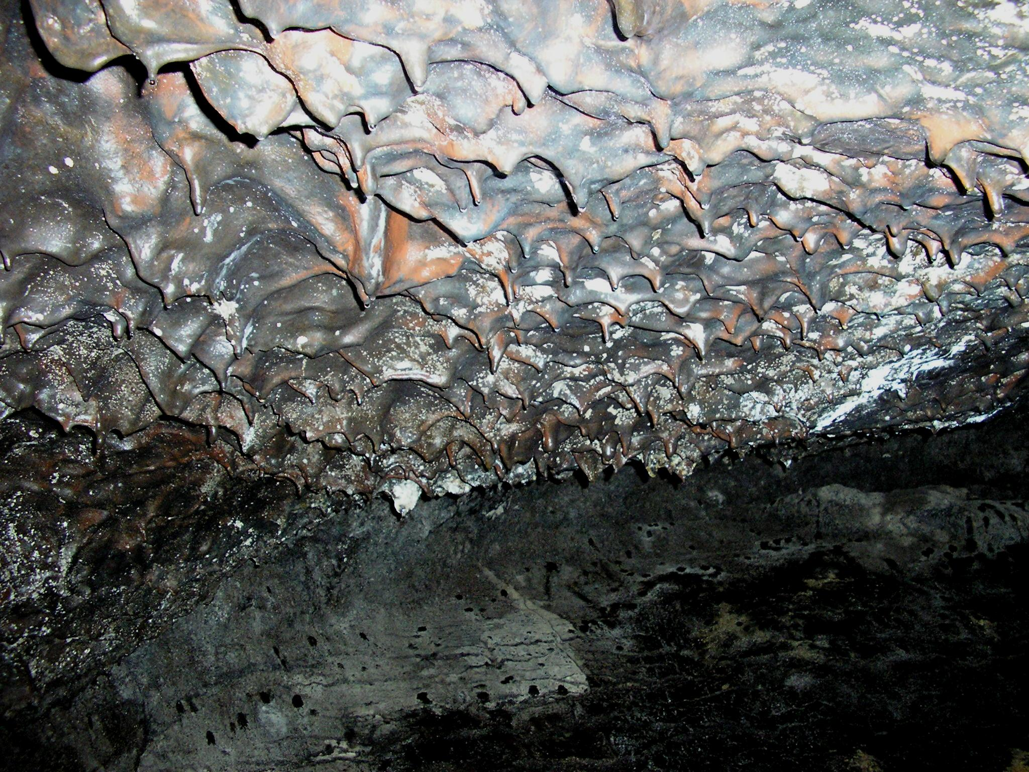 Shark-tooth type lavacicles on the roof of one of the lava tubes in the Gruta das Torres cave system, Azores.